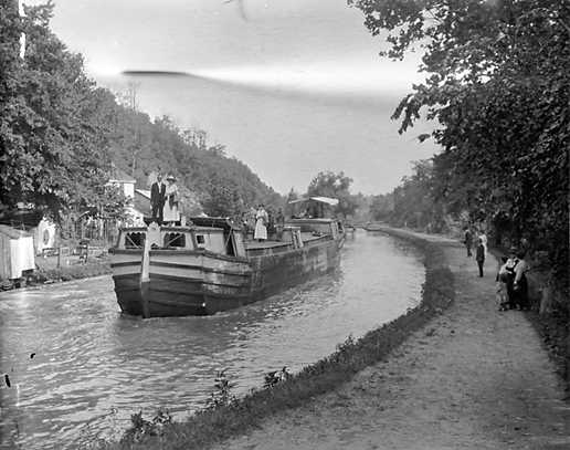 A ferry on the Chesapeake and Ohio Canal. "Man and woman standing on bow of (canal) boat as it moves down the canal; are dressed for a ceremony. Women on boat appear to be holding palm leaves, soldiers are also on board; people observing from tow road."